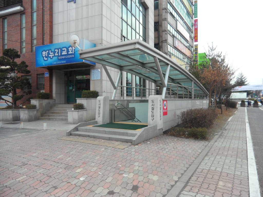 Exit of Wolpyeong Station